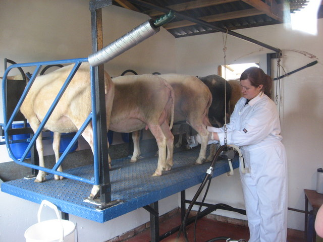 Sheep milking parlour at Great Bircham Windmill